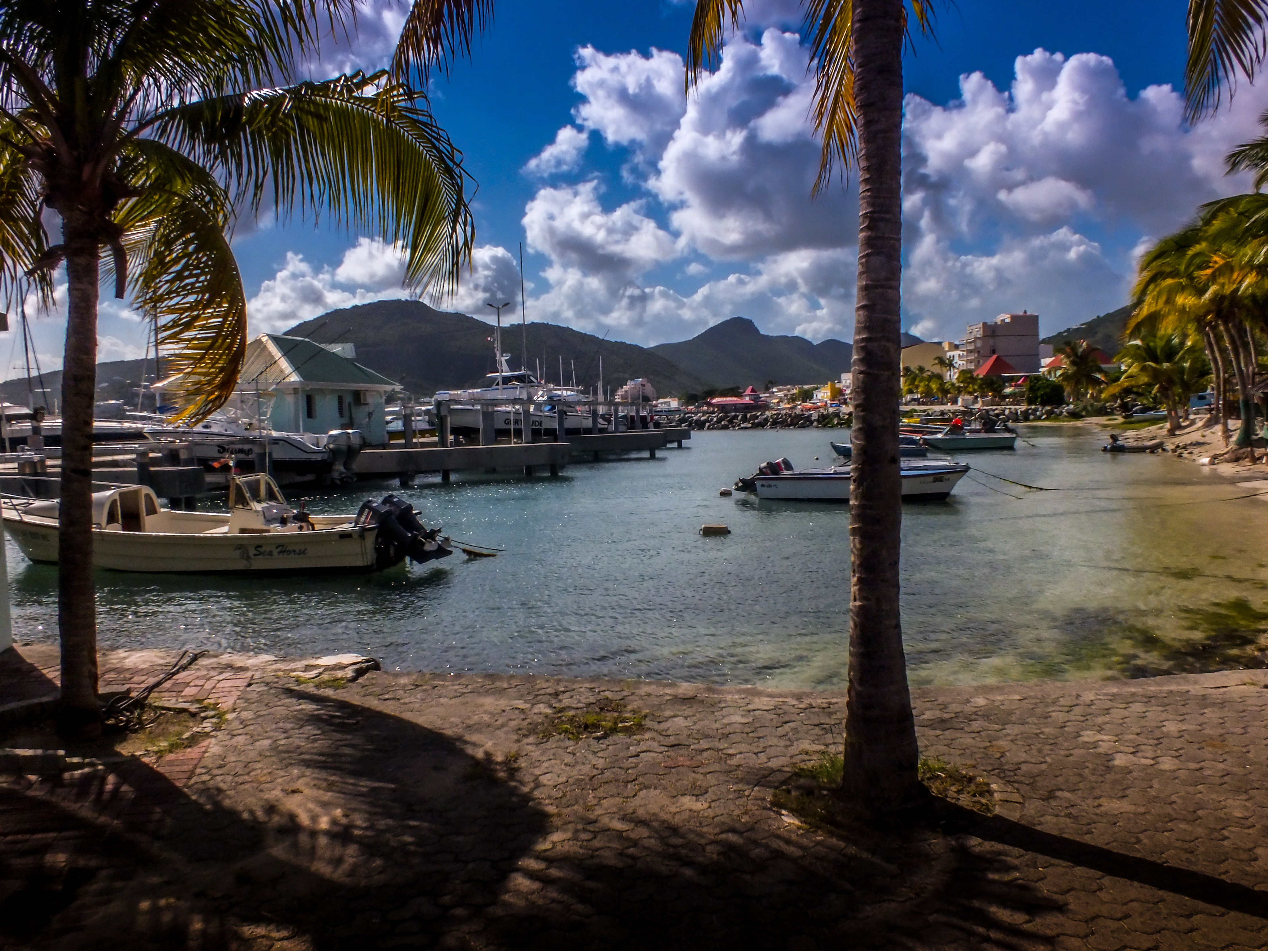 Philipsburg Harbour, St. Maarten